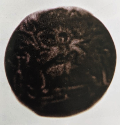 Nanadesi bronze seal, 12th century AD